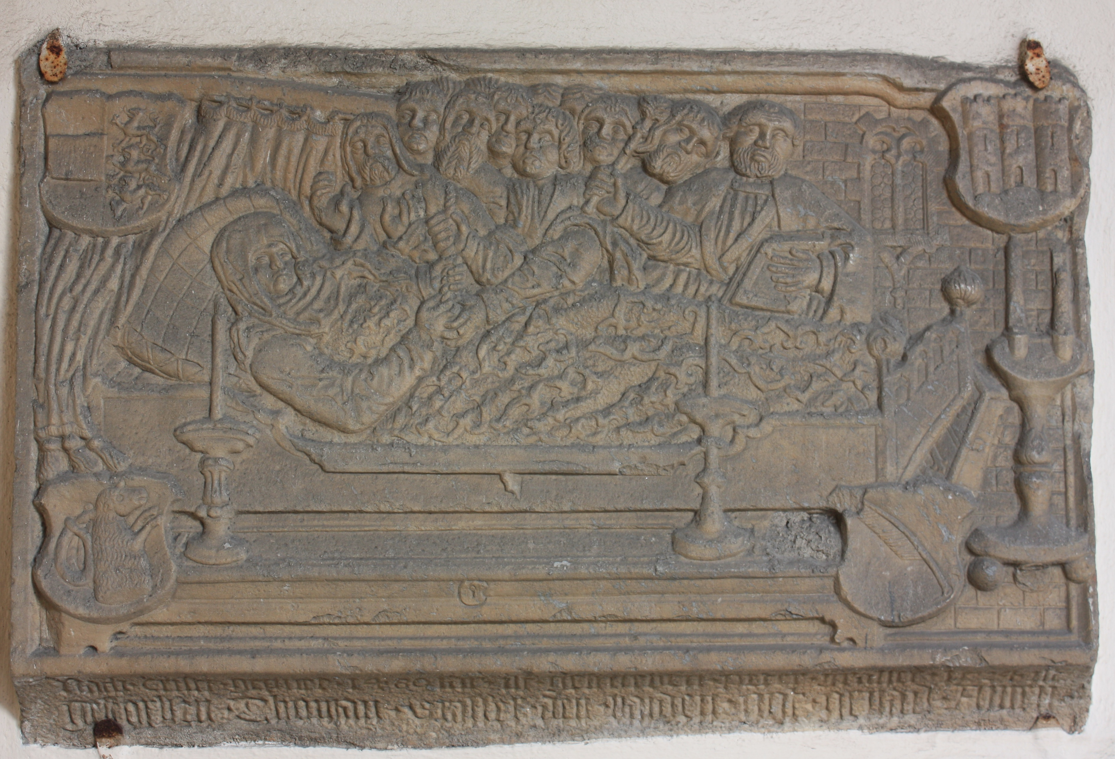 Parish church Saint Andrew - Epitaph Locality: Sankt Andrä Community:Sankt Andrä